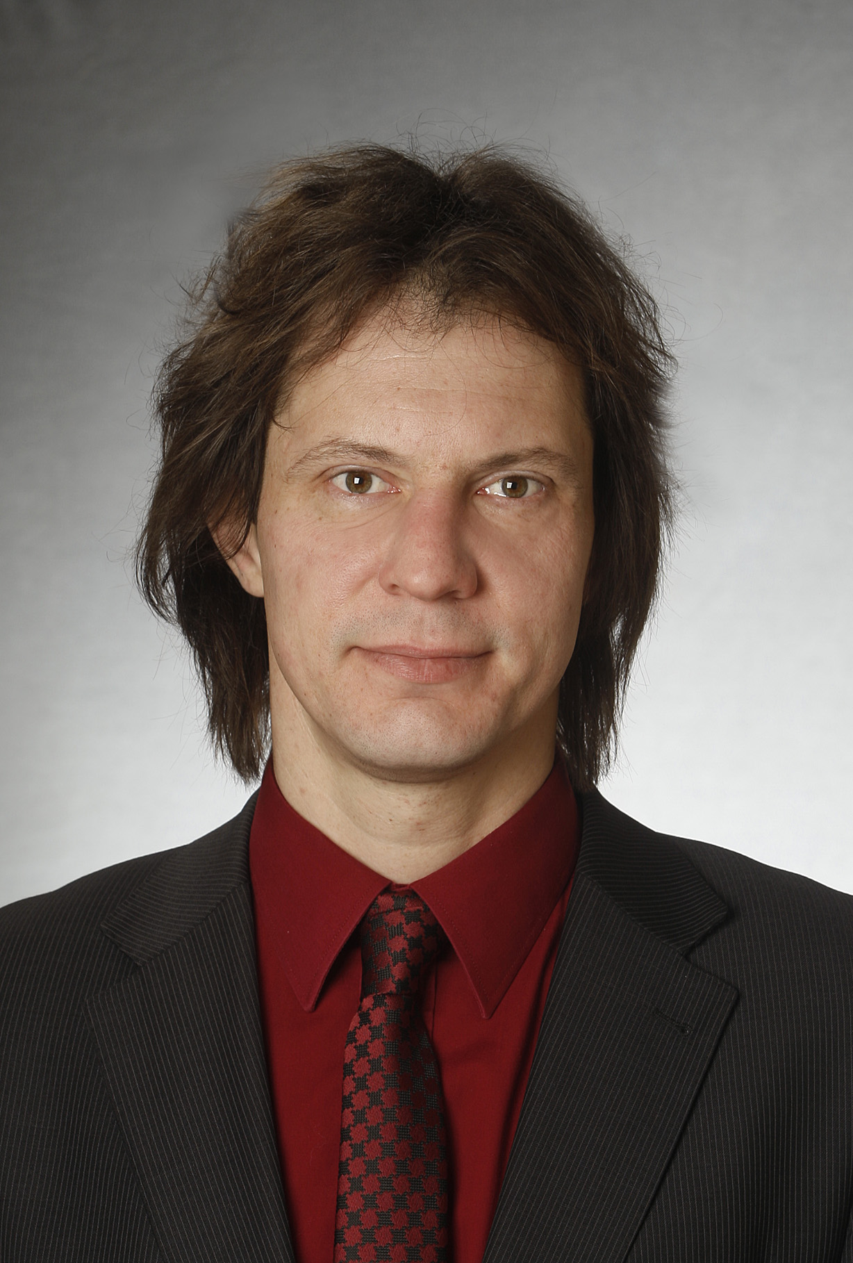 Indrek Saar